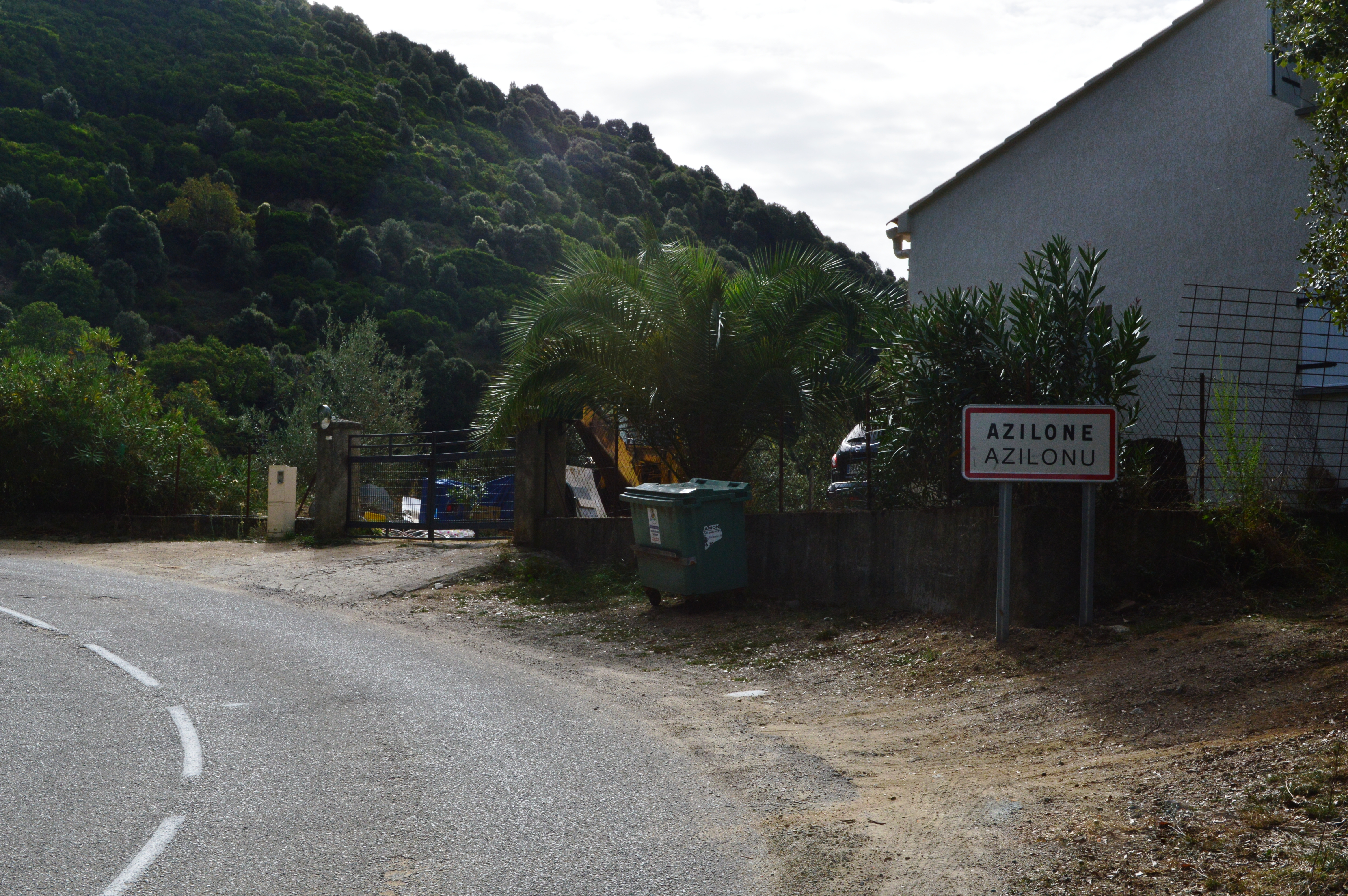 The entry to Azilone